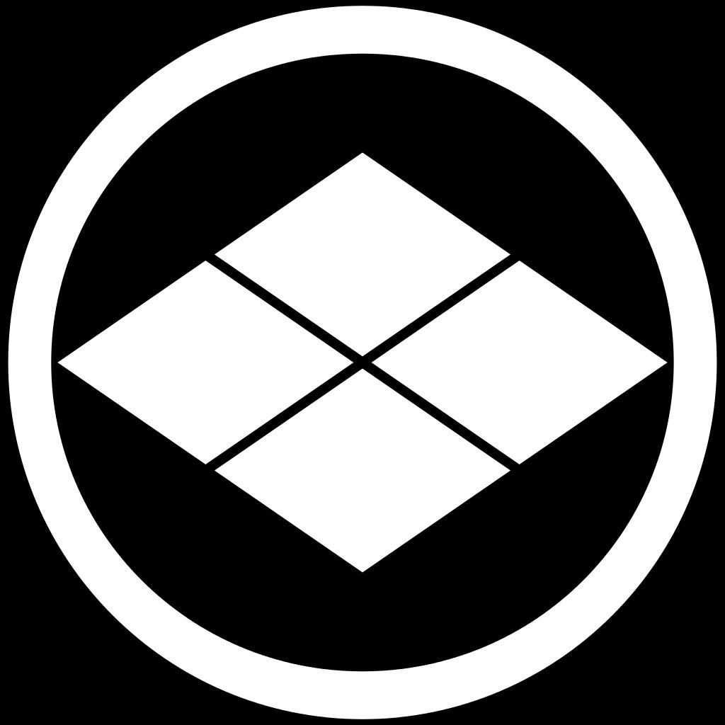 Crest of Matsumae clan